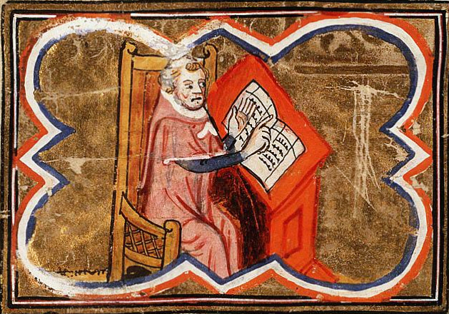 Guyard des Moulins, translator of Petrus Comestor's 'Historia Scholastica' Contents: Guiard des Moulins, Bible Historiale Complétée Place of origin, date: Paris; c. 1370-1380 Material: Vellum, ff. 444, 391x272 (281x180) mm, 58 lines, littera textualis, Binding: early 19th-century red leather; gilt (1814) Decoration: 2 two-column miniatures (150/130x180 mm); 26 column miniatures (75/45x85/80 mm); decorated initials with border decoration (ff. 1r, 2r, 2v, 37r, 59r, etc.); penwork initials throughout Provenance: presented in 1665 by Maria Ignatia Lorraine d'Elbeuf (1629-1679), daughter of Charles II of Lorraine, to an unknown institution, probably the Jesuits of the Collège Louis-le-Grand (Collège de Clermont) at Paris; purchased in 1764 as part of this collection (Clermont-cat. of 1764, no. 768) by Gerard Meerman (1722-1771) of Rotterdam, later The Hague; sold in 1770 by Meerman at the sale of P. and A. de la Court van der Voort at N. van Daalen, The Hague (cat. 19-28 Febr., pt. 3, p. 5 no. 59). Presented in 1814 by the Groningen Guild of Bookprintersand -sellers to King William I of The Netherlands, and transferred to the KB